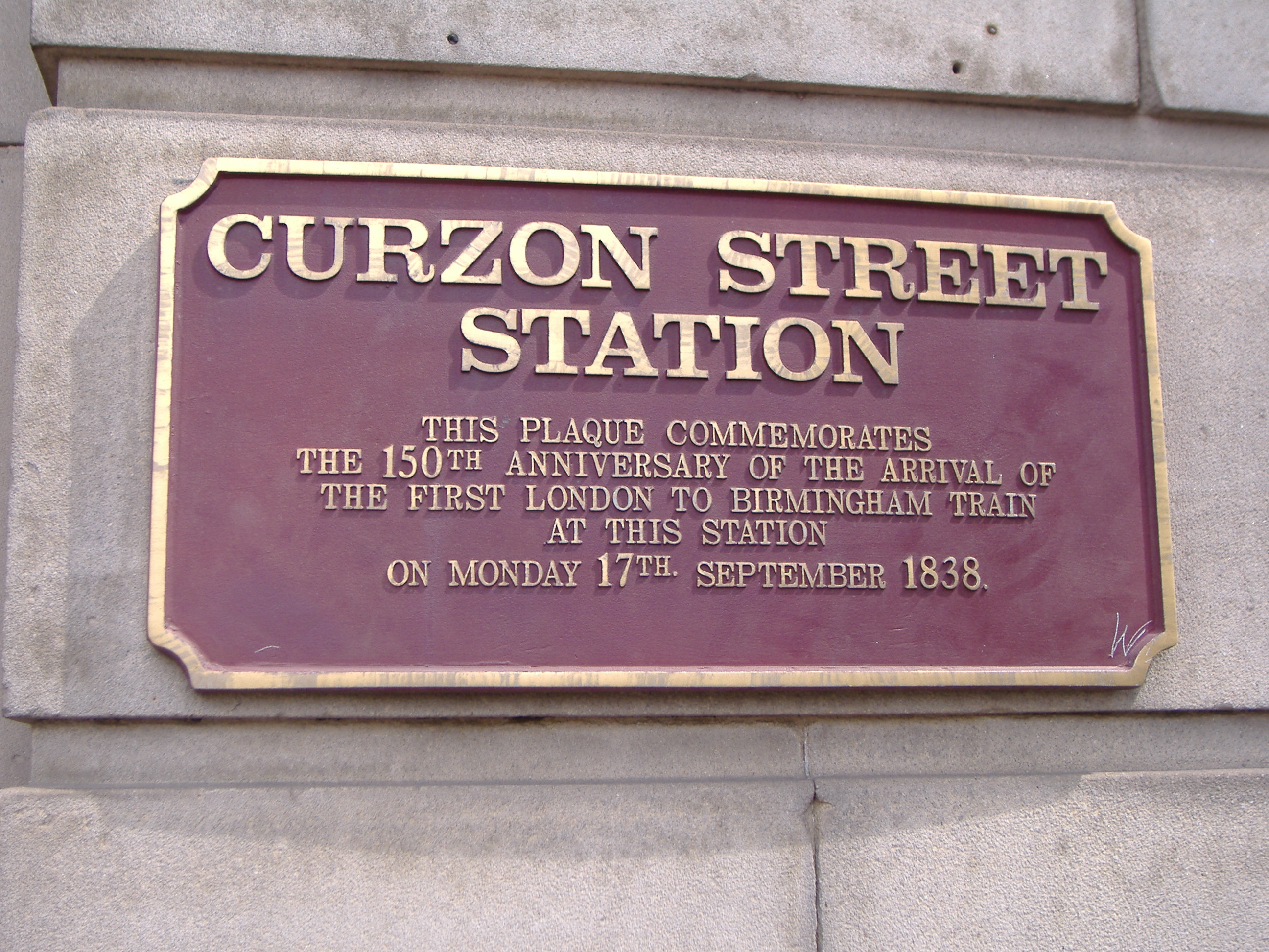 The plaque to the right of the entrance of the Curzon Street railway station in Birmingham, England. UK